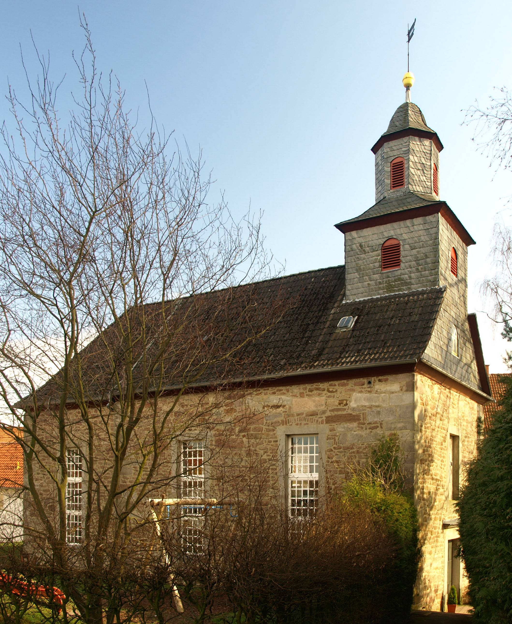 church of Schenklengsfeld-Wippershain from 1783